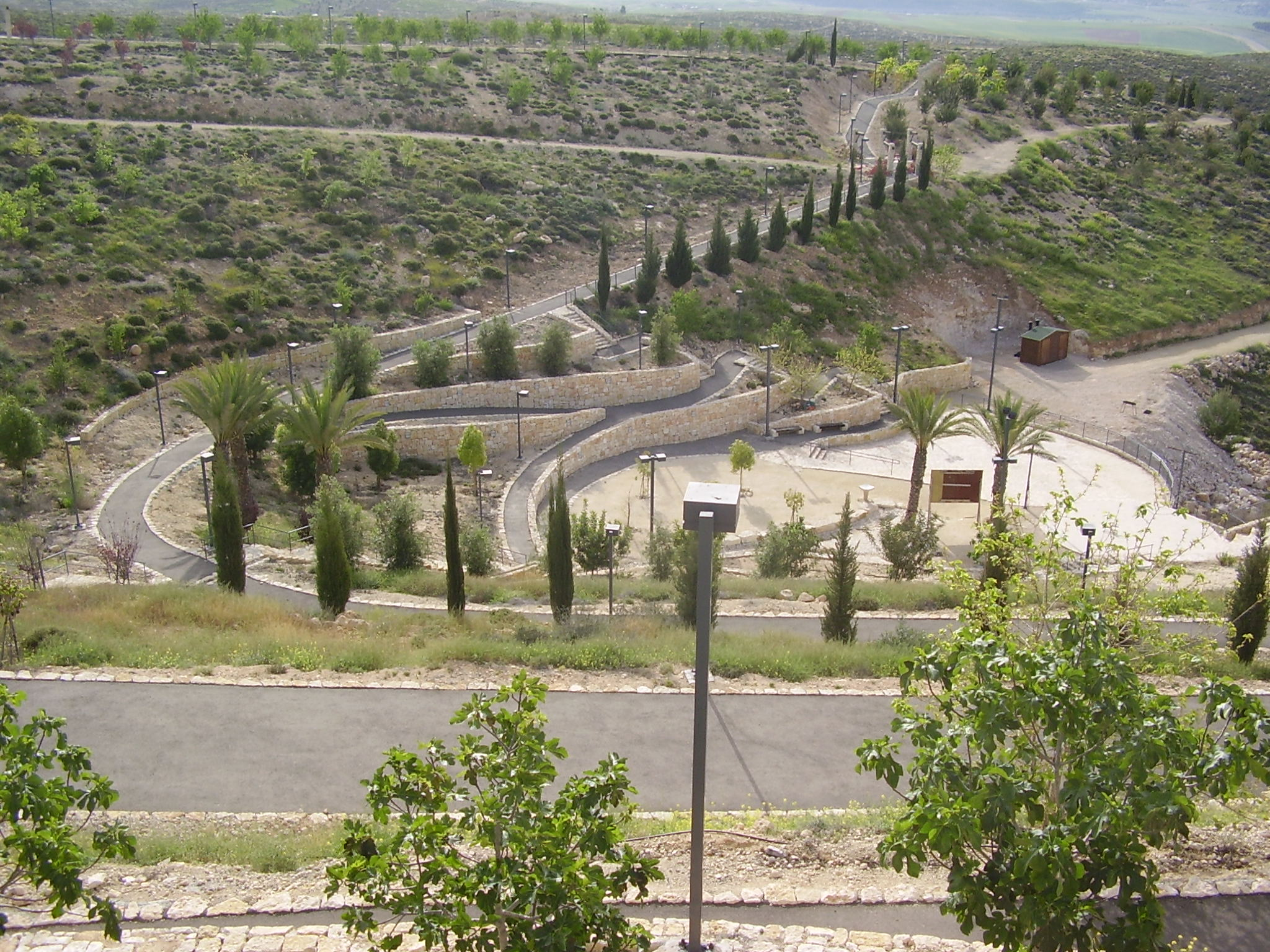 memorial park in sansana